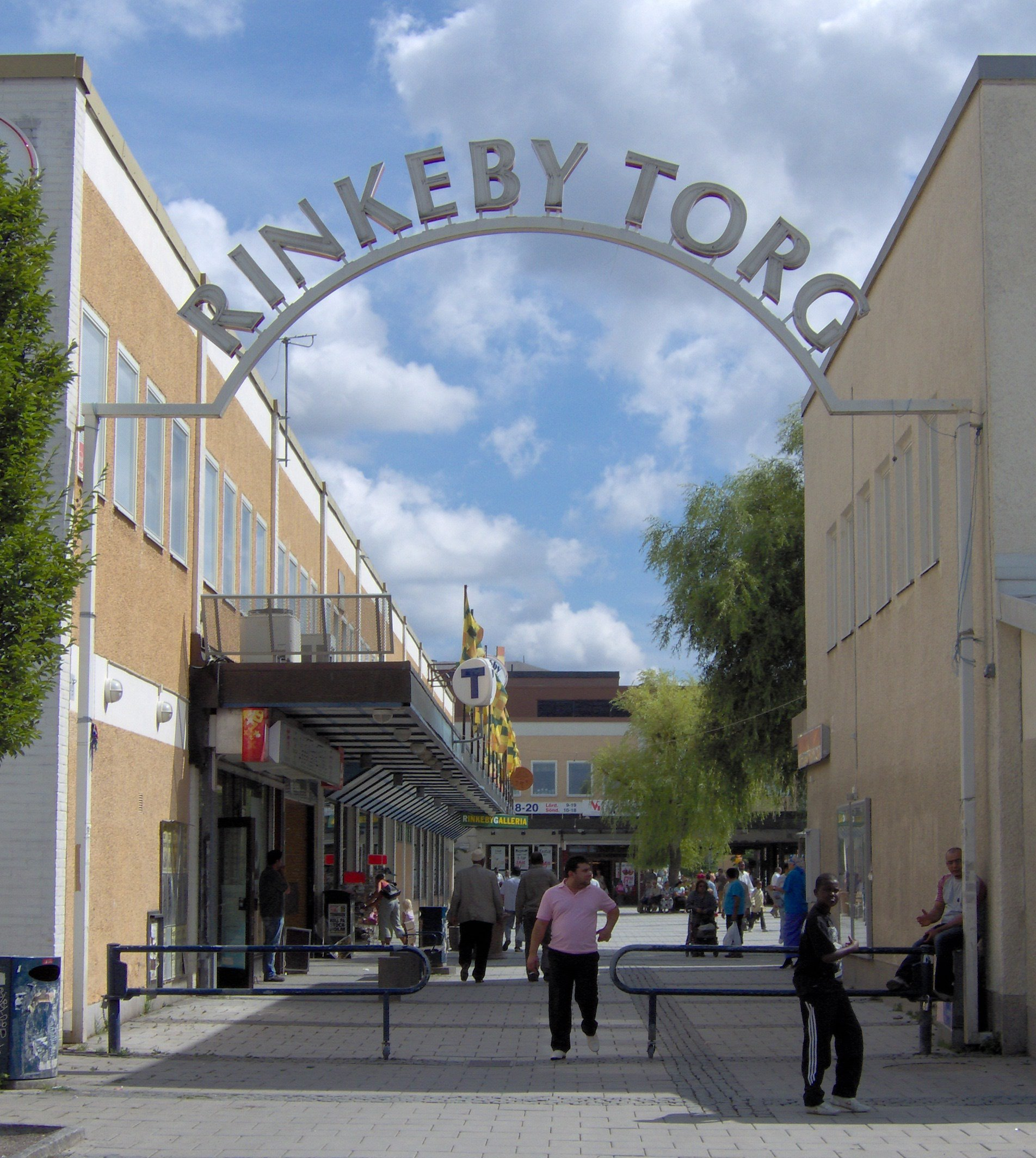 Stockholm suburb Rinkeby market place entrance.